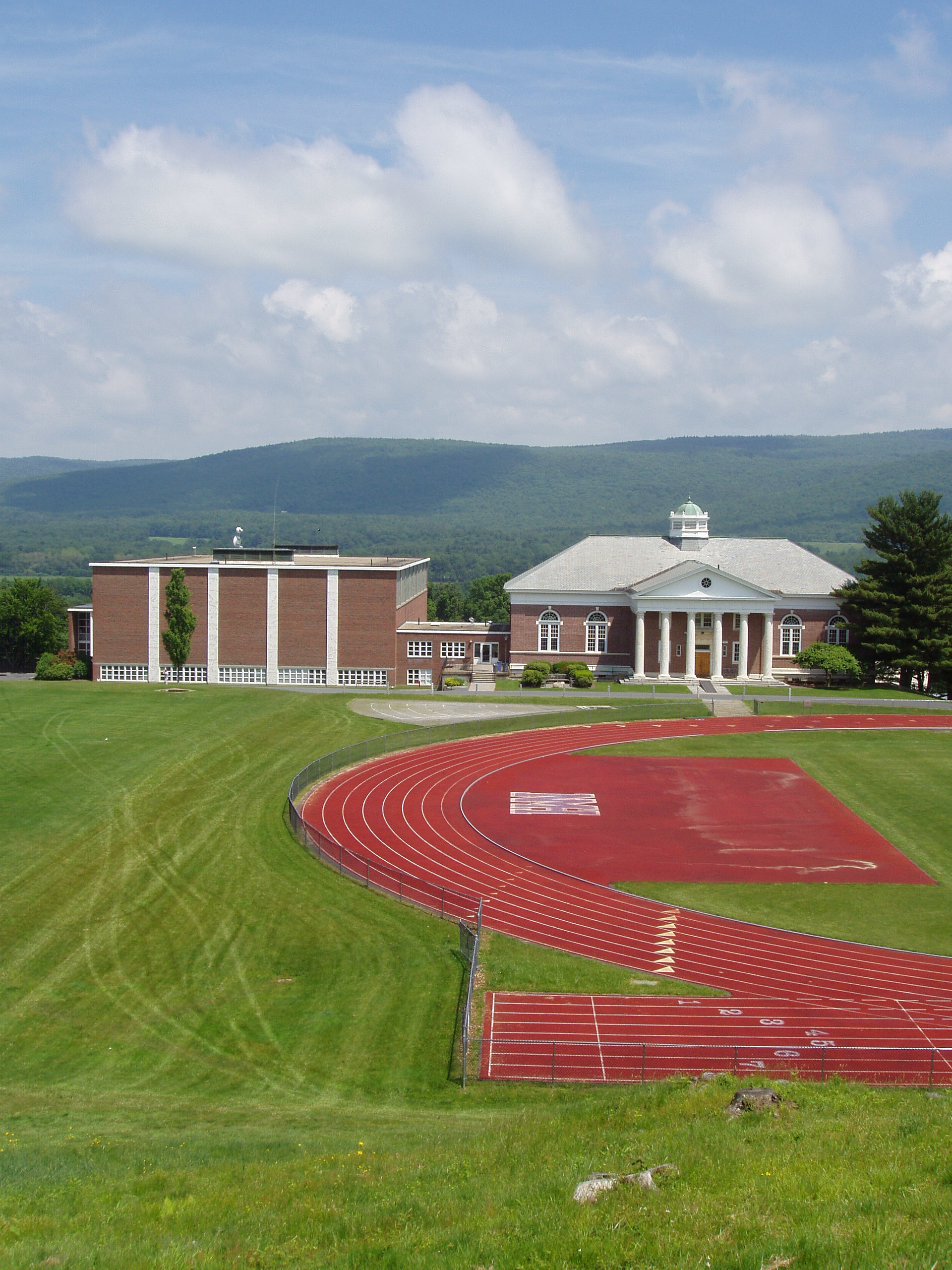 Northfield Mount Hermon School (Gill, Massachusetts, USA) - athletic fields, Mount Hermon campus.